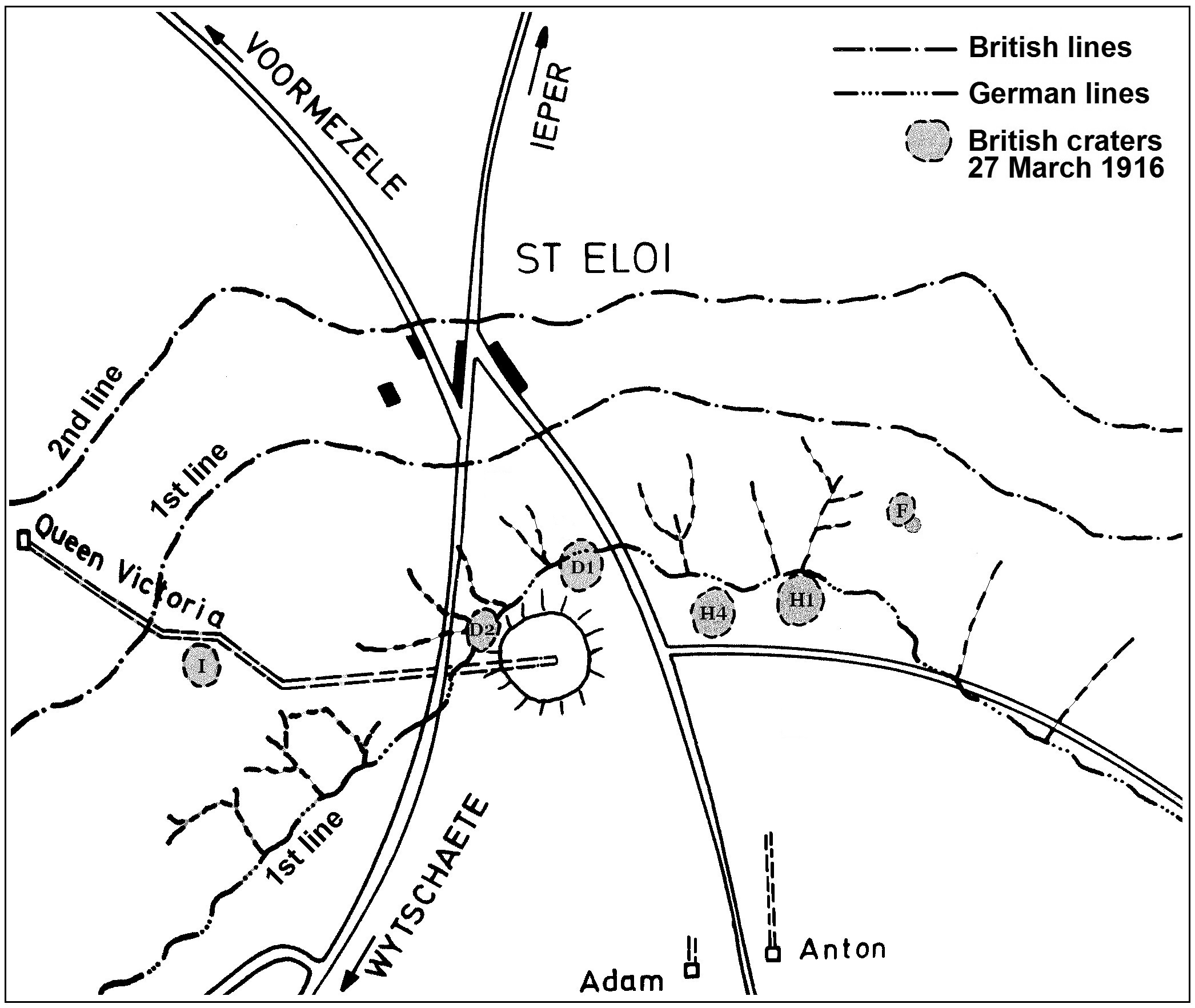 Map of St Eloi with evidence of British mining: craters of the six mines fired on 27 March 1916 at the start of the Battle of St Eloi Craters and plan of the deep mine dug from the "Queen Victoria" gallery and fired on 7 June 1917 as part of the mines placed by the tunnelling companies of the Royal Engineers in the Battle of Messines. This drawing is based on the plans published in Roger Lampaert, De Mijnenoorlog in Vlaanderen 1914–1918, Roesbrugge/Belgium (Drukkerij Schoonaert) 1989; and Simon Jones, Underground Warfare 1914-1918, Barnsley (Pen & Sword Books) 2010, p. 100